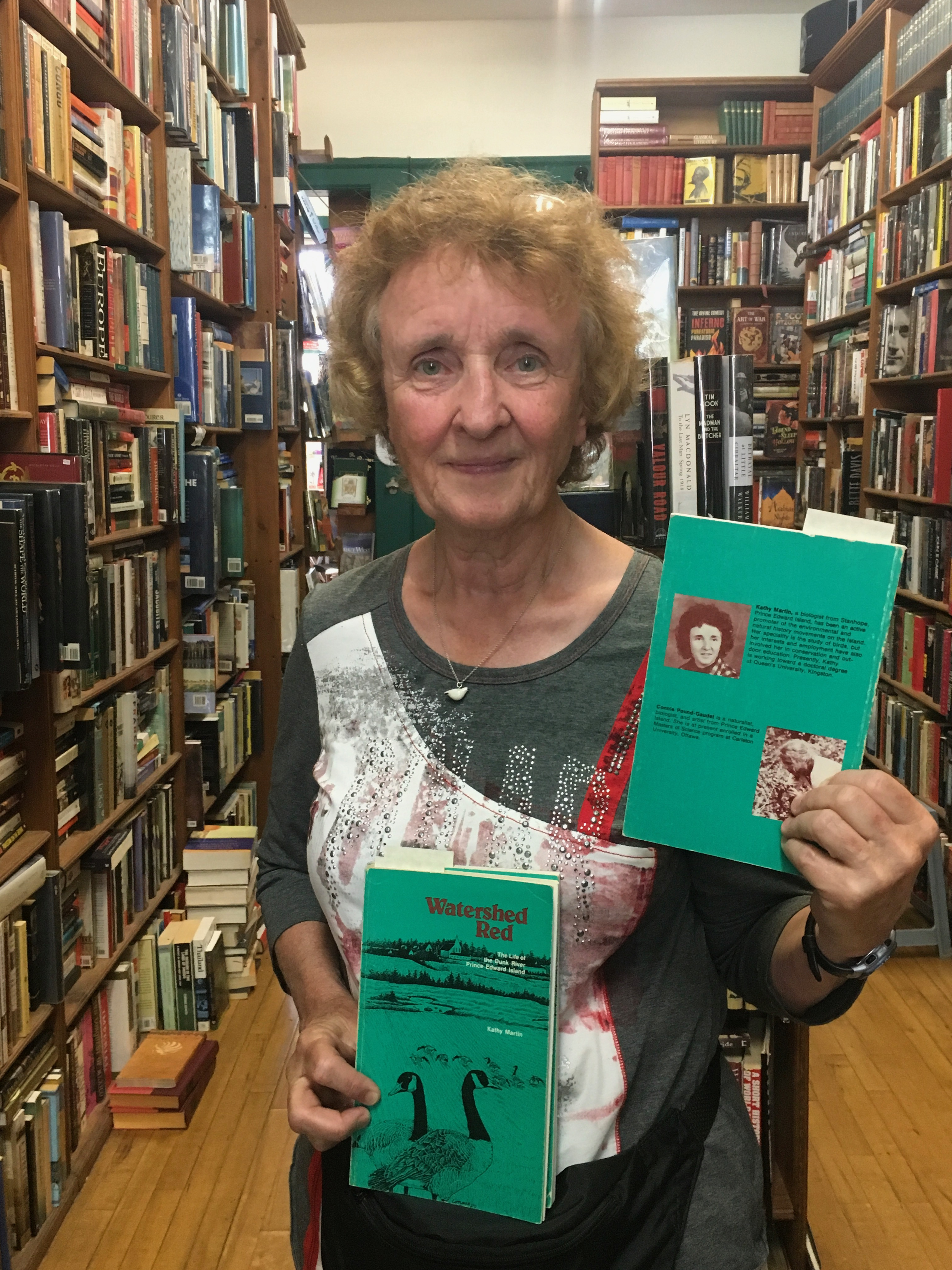 Kathy Martin with her 1981 book, Watershed Red, at a Charlottetown, PEI, bookstore in 2017